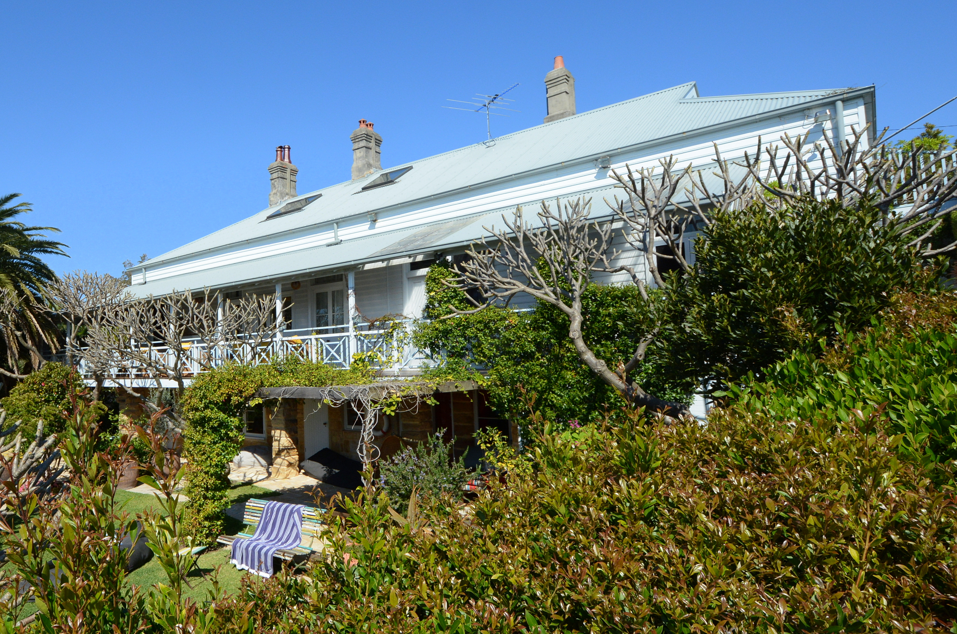 Former marine biological station, Watsons Bay, Sydney